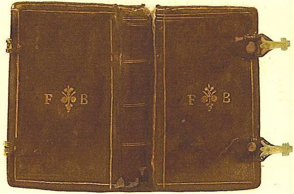 Bay Psalm Book 1651 edition - " The Psalms, Hymns and Spiritual Songs" printed in 1651 by Samuel Green; bookbinder John Ratcliff